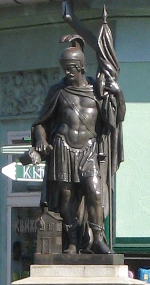 Statue of Saint Florian (Fireman's protector) Pančevo